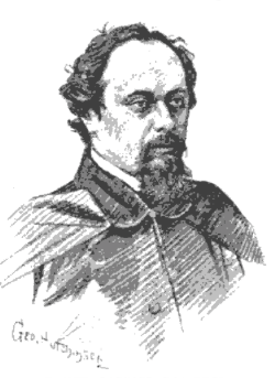 Dante Gabriel Rossetti by George Wylie Hutchinson